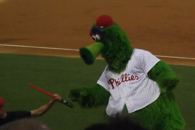 On August 22, 2014, the Phillies themed a game "Star Wars Night"; the mascot - the Phillie Phanatic - participates.